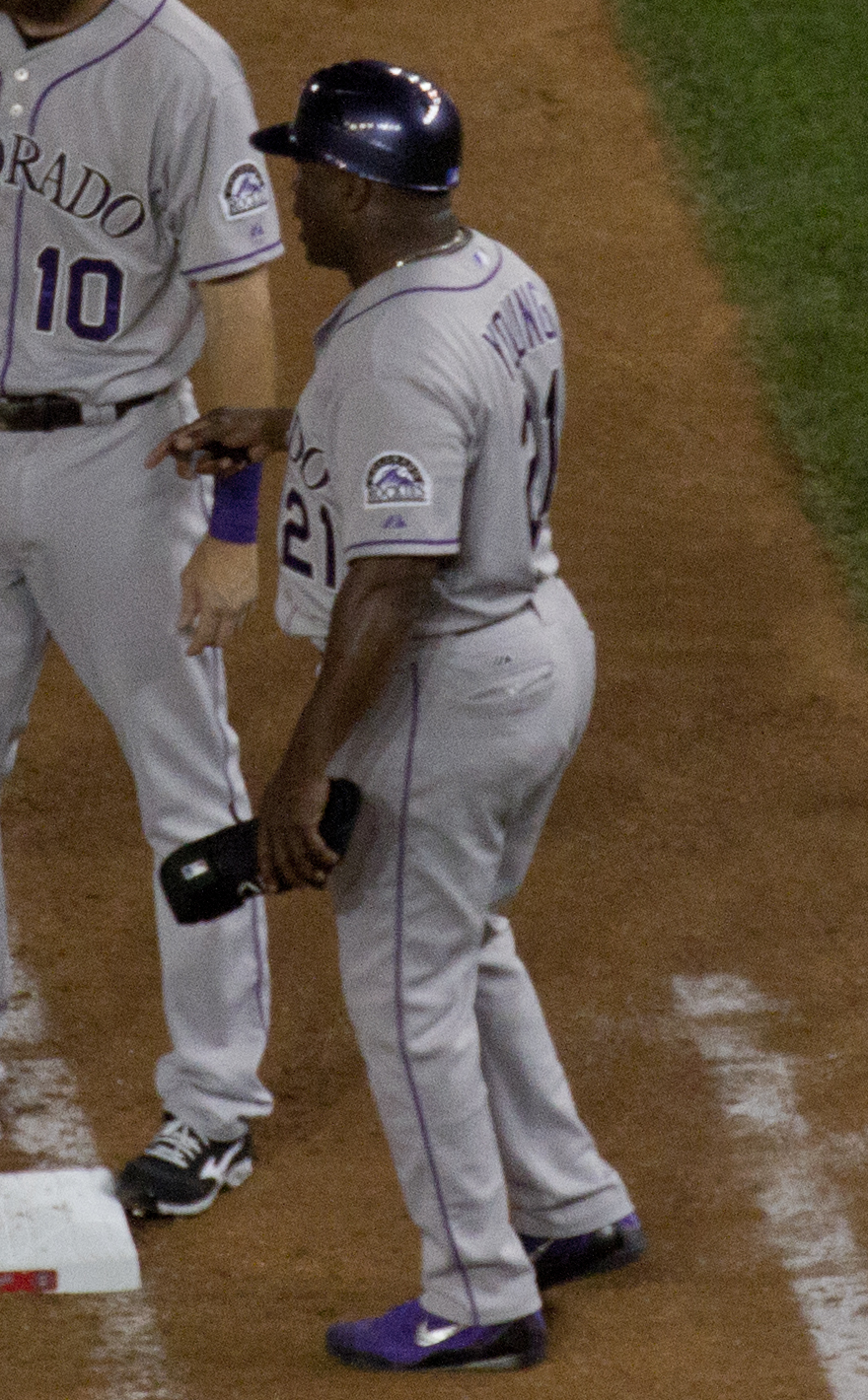 Eric Young